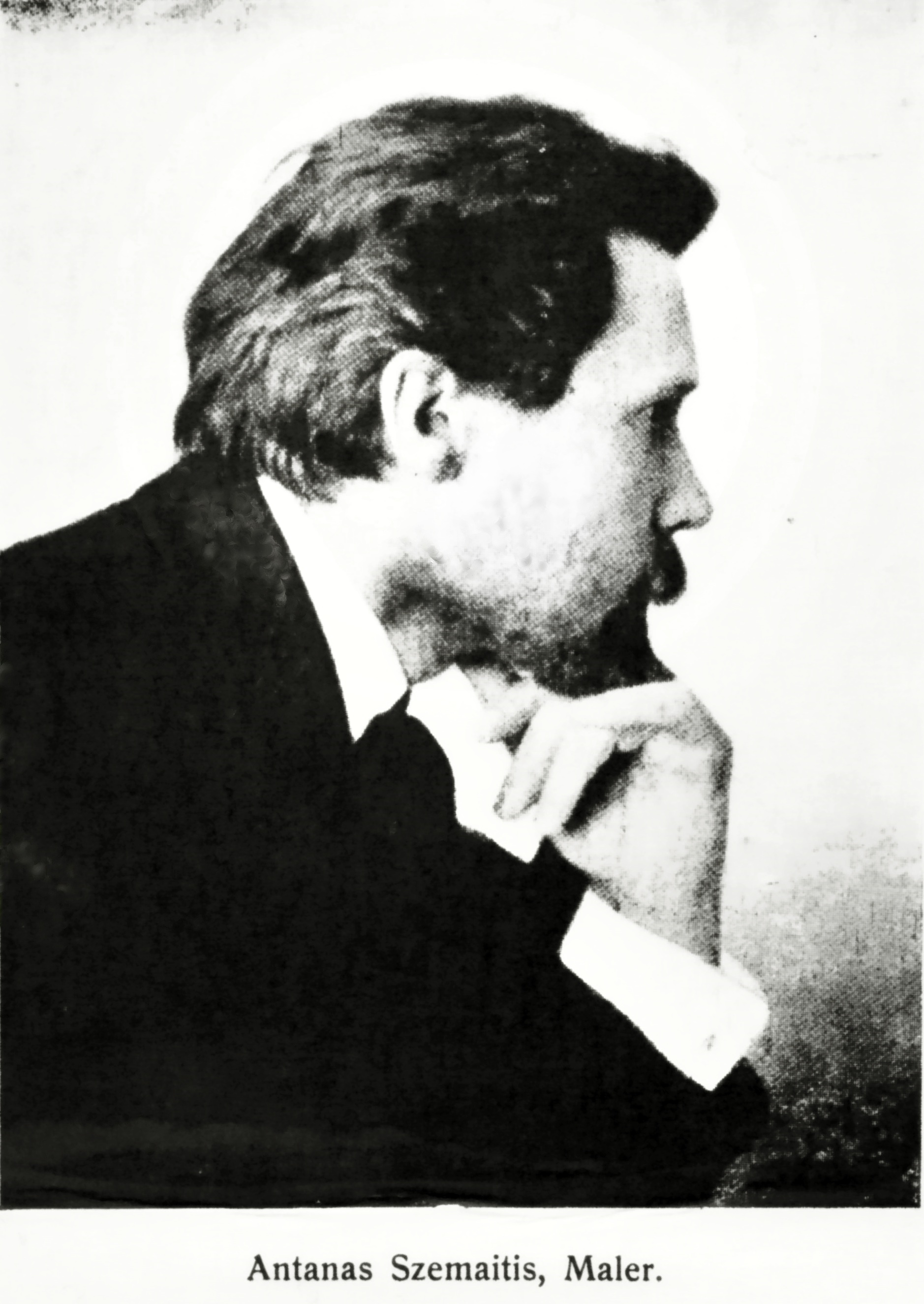 Portrait photography (side profile) of Antanas Szemaitis (Antanas Szmudszinavitschus)